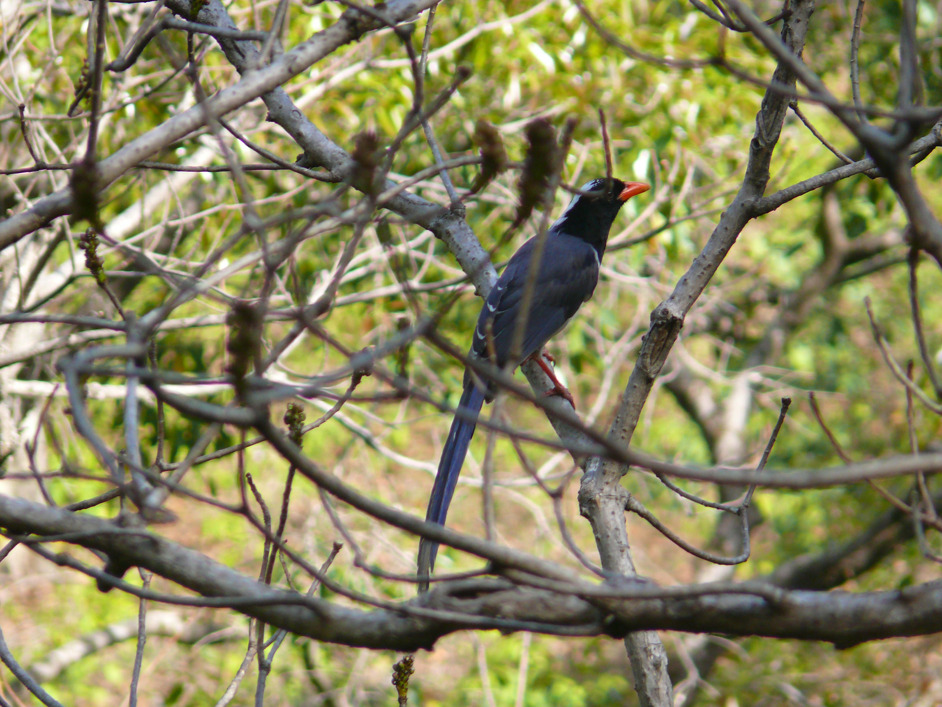 Red-billed Blue magpie - Urocissa erythrorhyncha